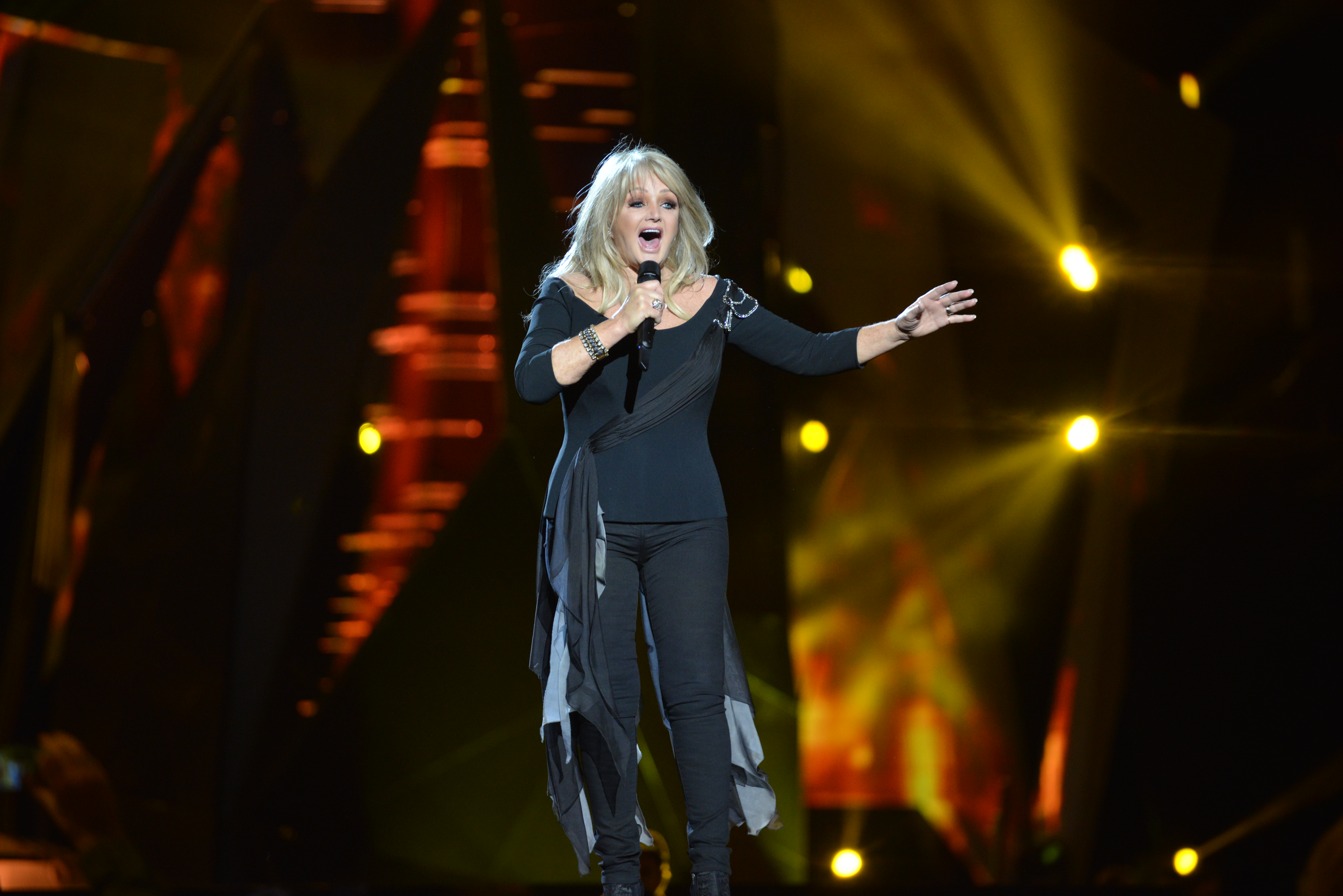 Bonnie Tyler representing United Kingdom with the song "Believe in Me" during the first dress rehearsal for "the Big Five" in the Eurovision Song Contest 2013 in Malmö. (Help translate this text)